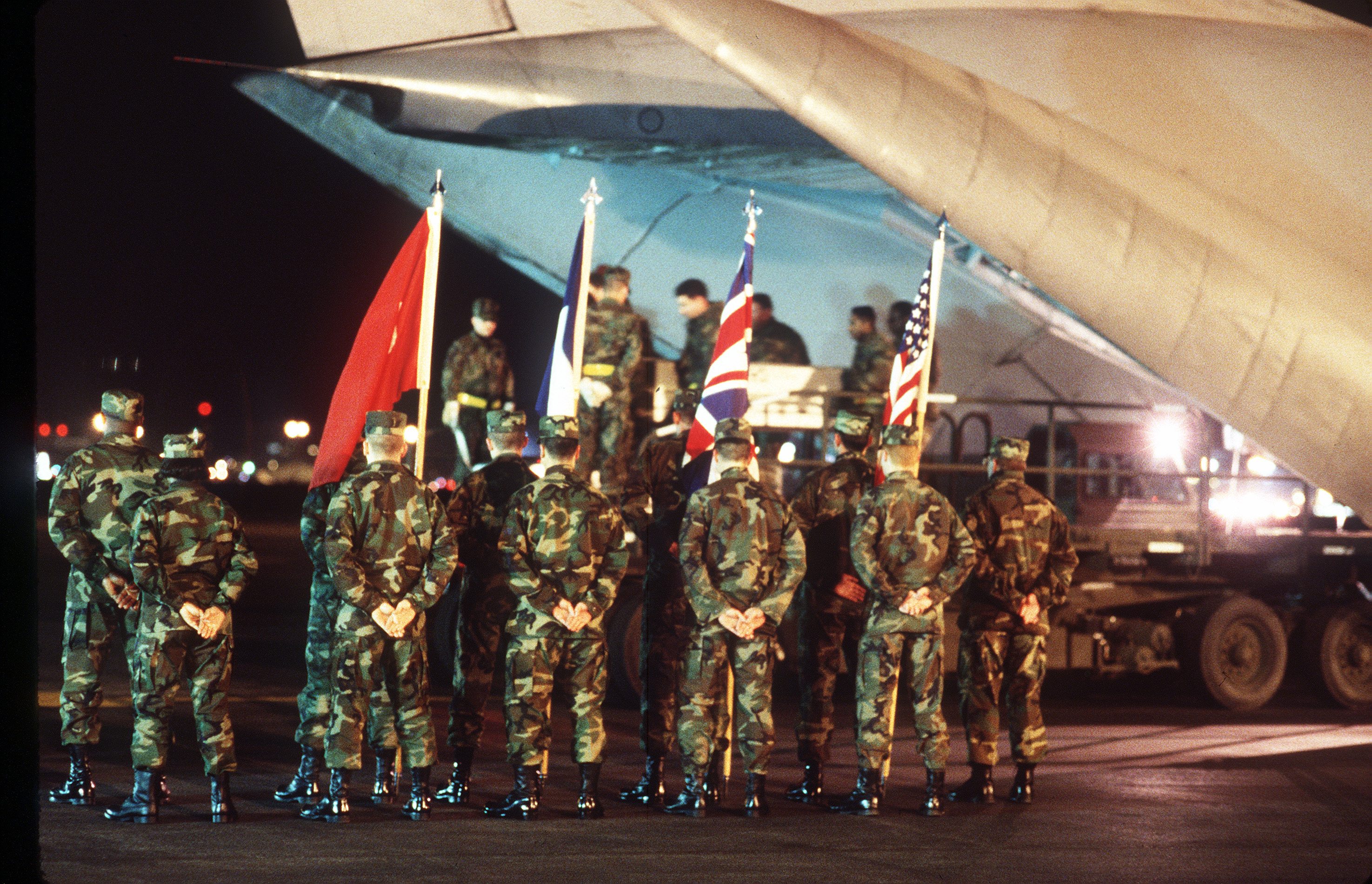 The remains of 26 people were flown in for transportation to the U.S. Army Mortuary Center, Frankfurt, Germany. The 26 were killed in an accidental downing of two U.S. Army UH-60A Black Hawk (Blackhawk) helicopters by U.S. AIr Force F-15C fighters in the northern Iraq "no fly zone". Standing in review was the Rhein-Main-Air Base color guard, they displayed the flags of the countries that mourn the loss of their citizens, the United States, Britain, France and Turkey.